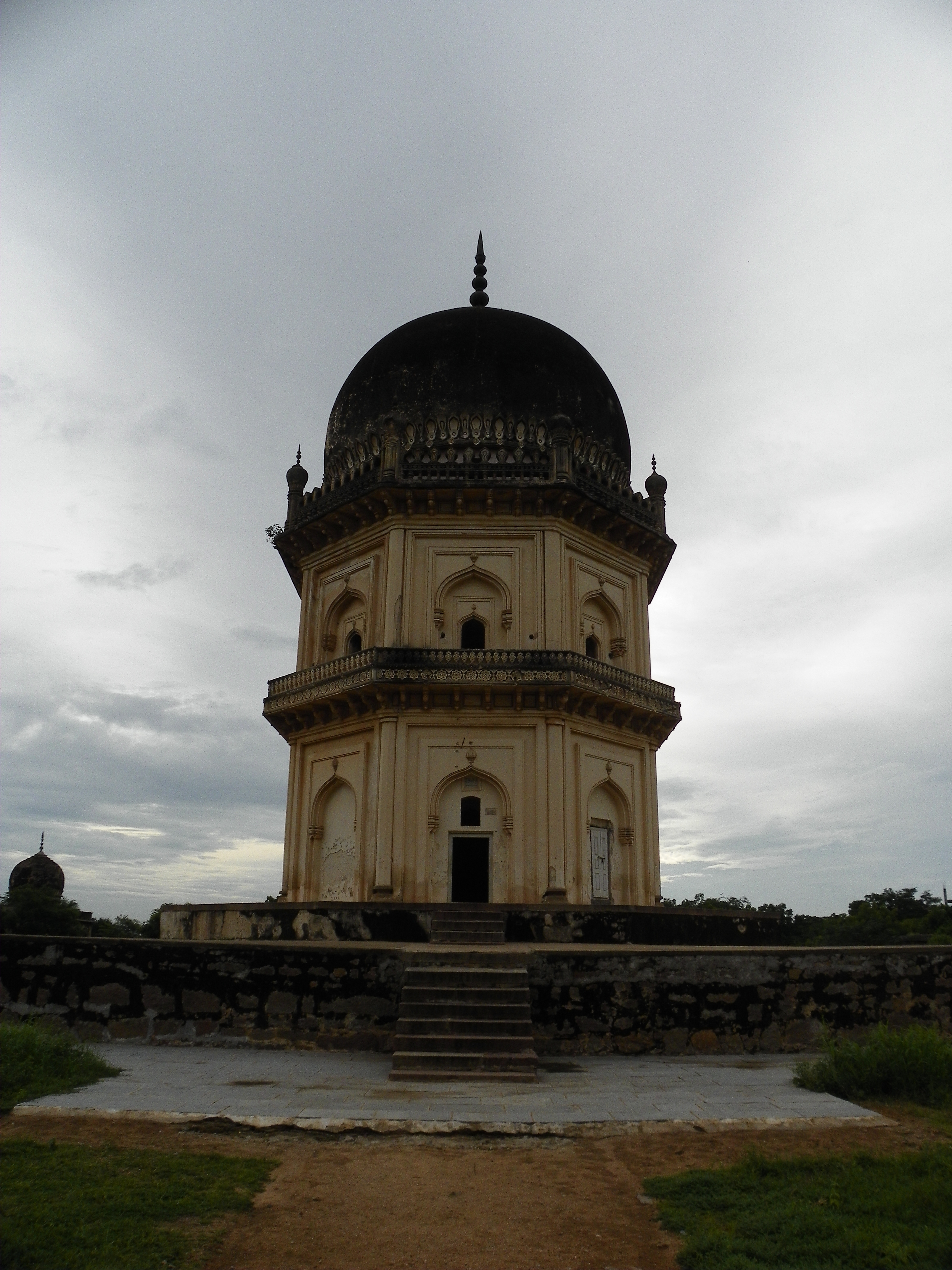 Frontal view of Jamshed Quli Qutub Shah, the 2nd Sultan's tomb.